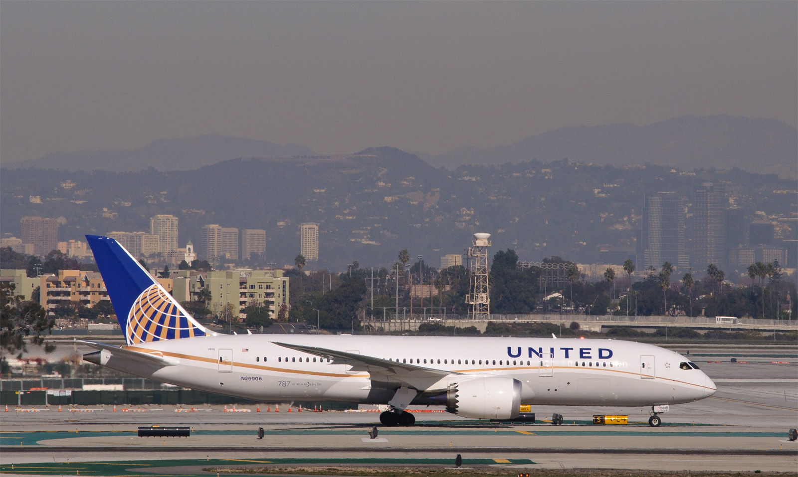 Some planespotting for the very first weekend of 2013 - in anticipation of seeing the new United 787 services to/from Tokyo. (And I was far from alone - plenty of hardcore planespotters, all of male middle-aged persuasion except for yours truly.) United's second 787 returns from Tokyo after performing its first revenue overseas run. Callsign is United 33. The 787 uses LED beacon lights, which illuminate longer than standard ones; as a result, beacon shots are much easier to get with a 787. N26906, Boeing 787-8